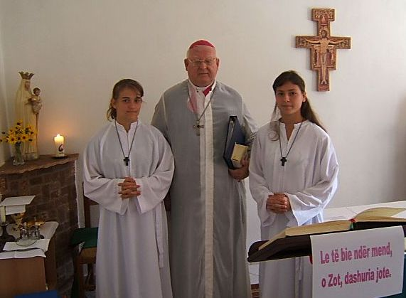 John Bulaitis Apostolic Nuntius in Albania during a vistit in Delvina (2005)